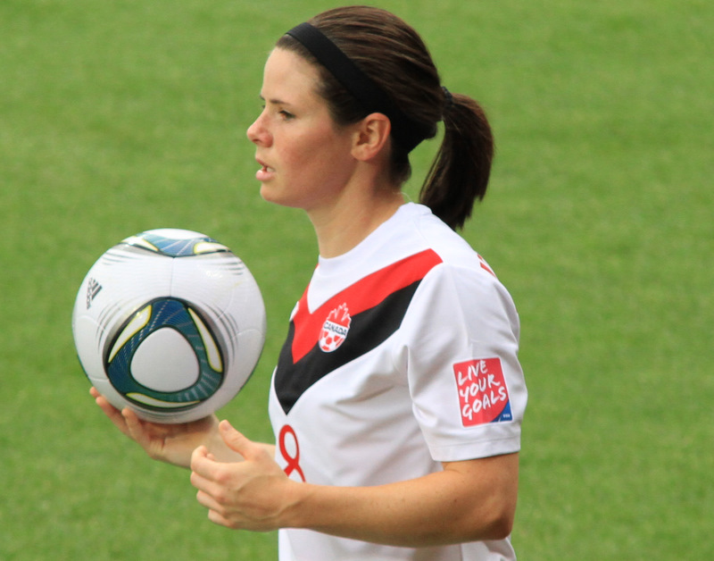 Diana Matheson playing for Canada in the 2011 FIFA Women's World Cup